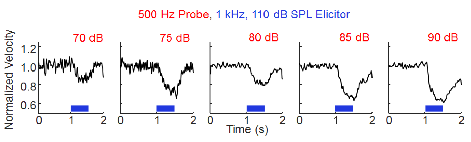 The eardrum is excited with a 500 Hz probe tone that sets it into motion. A 1000 Hz elicitor tone is presented for 0.5 seconds (Blue bar indicates the presentation of the elicitor) and causes the acoustic reflex to activate. When the elicitor is turned off, the muscles of the middle ear relax and the vibration of the middle ear returns to normal. As the elicitor's presentation level increases, the effect of the acoustic reflex increases